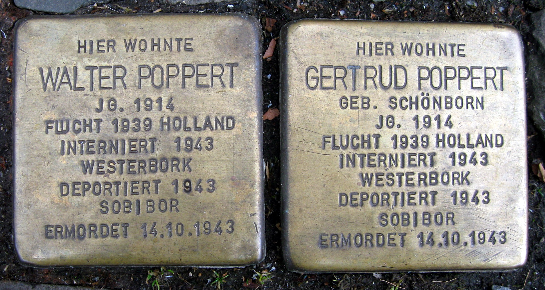 Stolpersteine at house Hohe Straße 61a in Dortmund, Germany